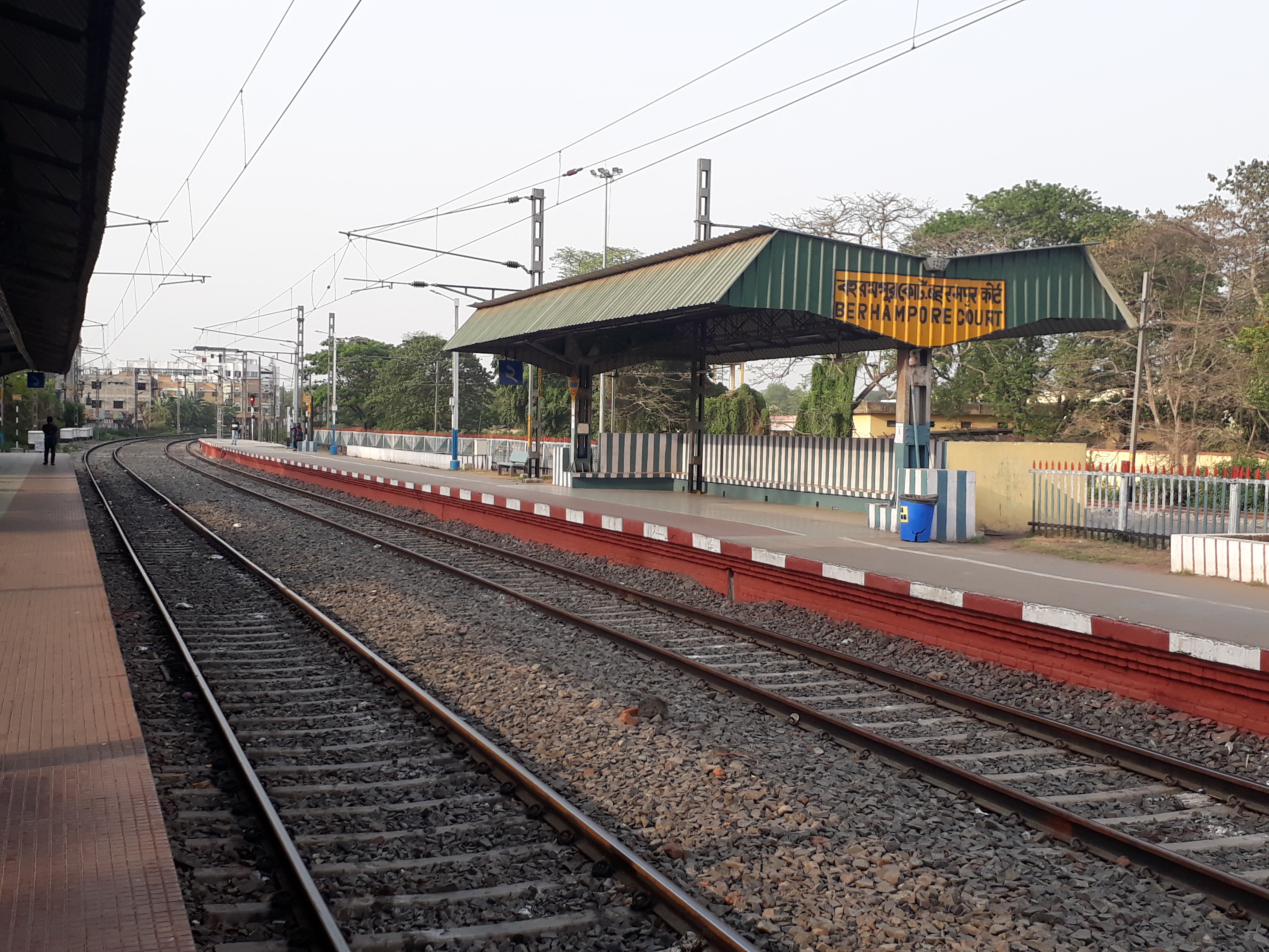 Full views of Berhampur Court station